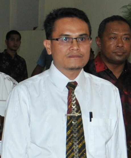 Padang, MPR Chairperson Zulkifli Hasan conducted an Information Session and Nationality Discussion The MPR went to campus, at the IAIN Hall of Imam Bonjol, Friday 16/09/2016, on "Outlines of State Policy". Present on the occasion, DPR RI Member Original Chaidir, West Sumatra Governor Irwan Prayitno, Regent of Padang Pariaman, IAIN Chancellor Imam Bonjol Eka Putra Wirman, West Sumatra Muhammadiyah Regional Chairman Sofwan Karim, Ruhut Sitompul, Fahri Harahap, Martil Hutabarat as guest speaker.